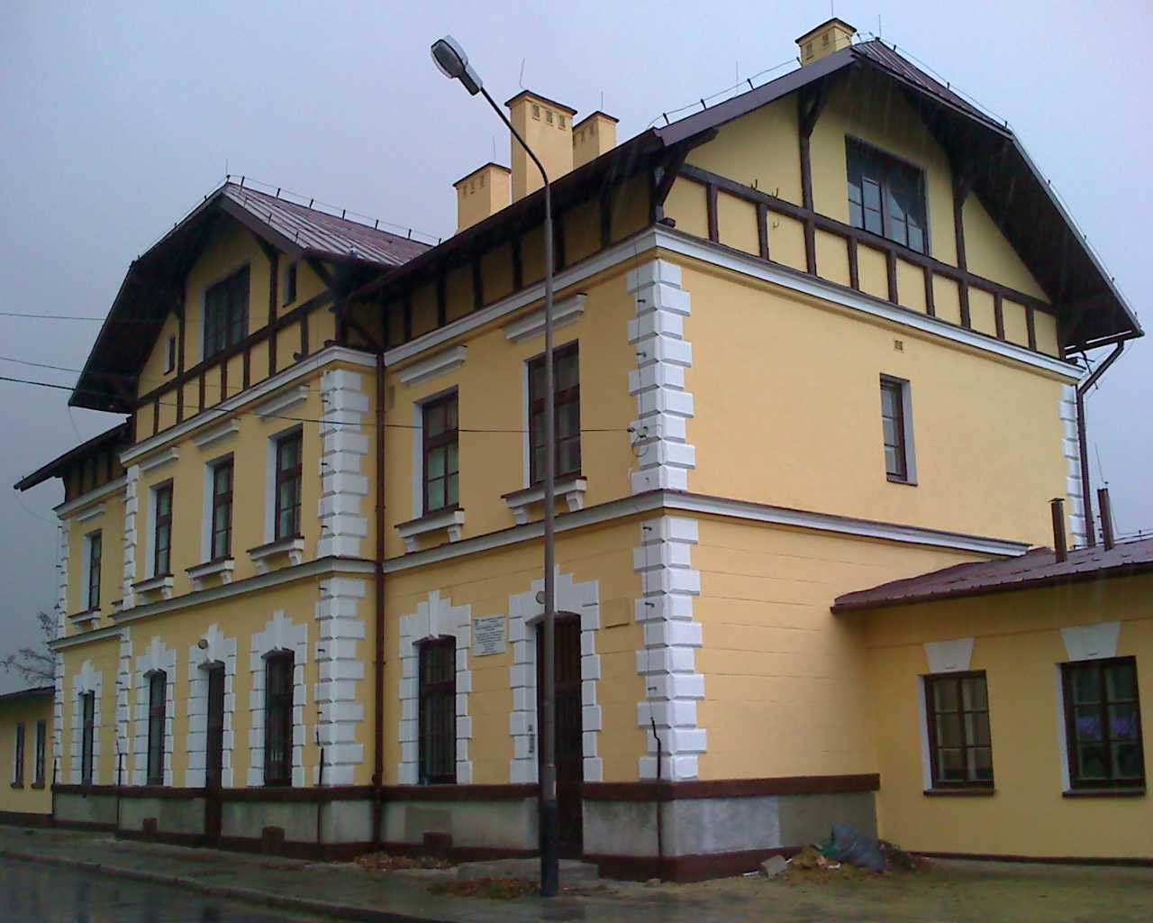 Raily station "Staroniwa" in Rzeszów